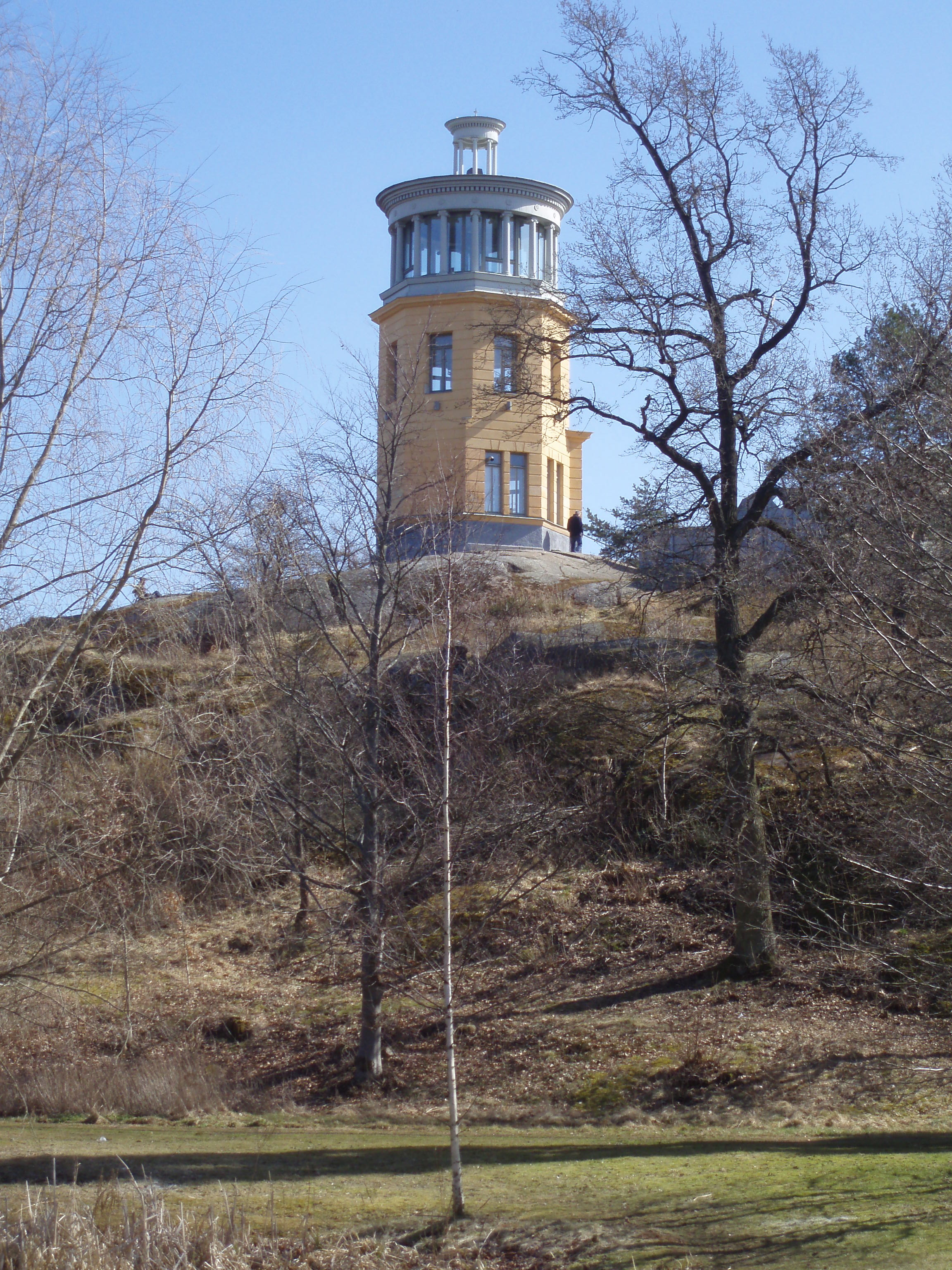 Belvederen in Linköping.